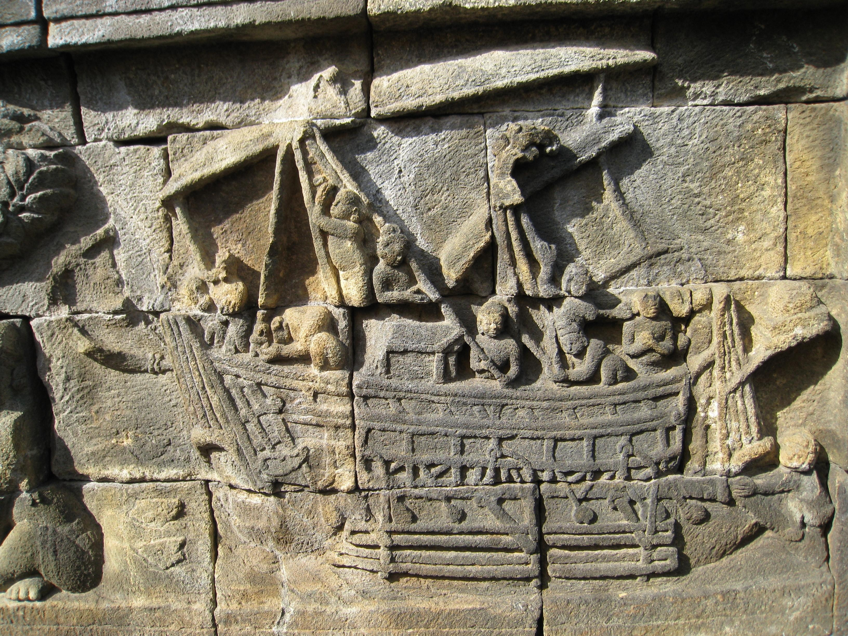 Avadana Level 1, Ship and Crew